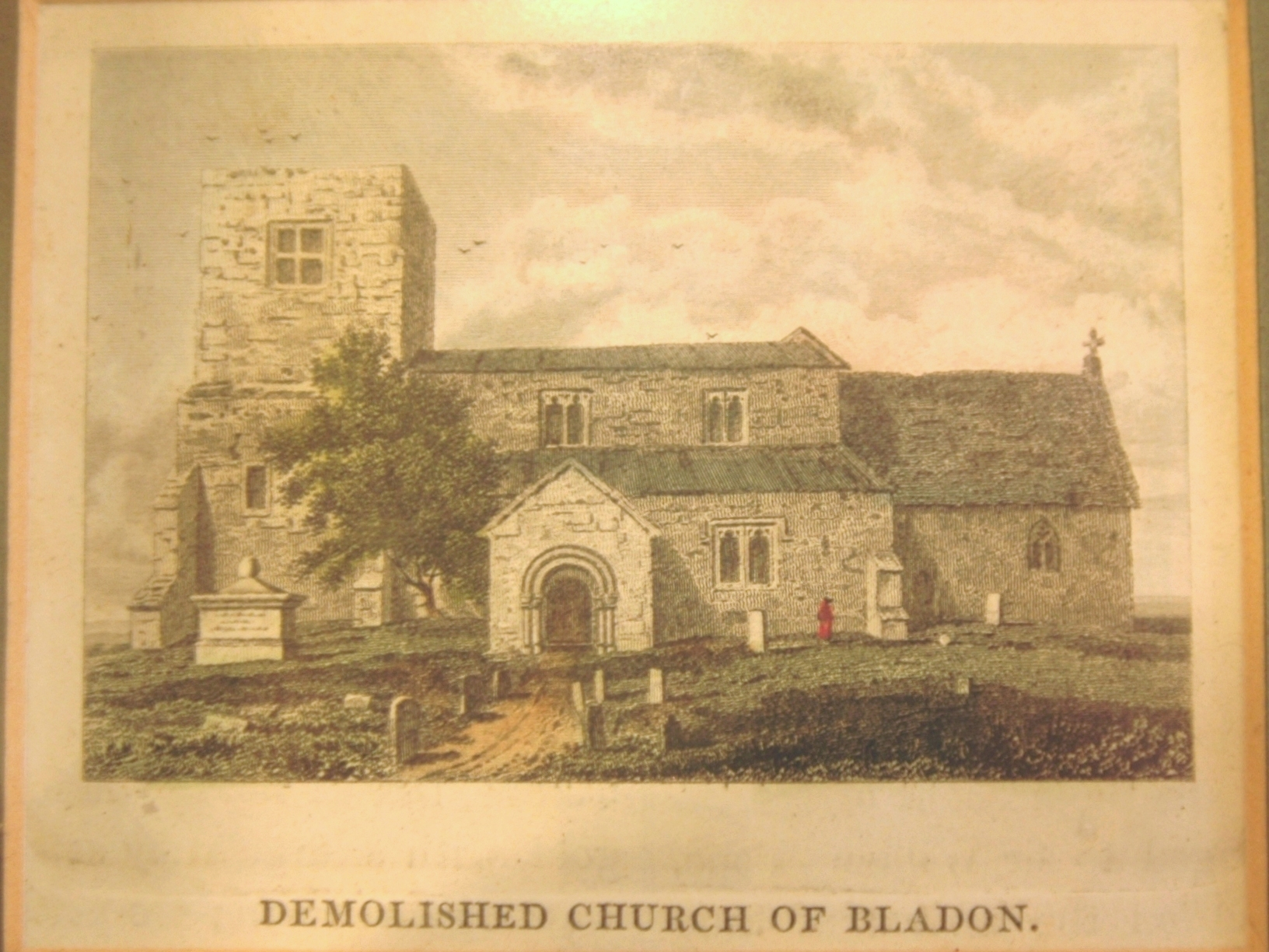 Church of England parish church of St Martin, Bladon, Oxfordshire: former church, viewed from the south, in a print now displayed in the current St Martin's parish church. This medieval church was demolished in 1802 and replaced by a Georgian church that was then rebuilt in 1891 to form the present Gothic revival church.